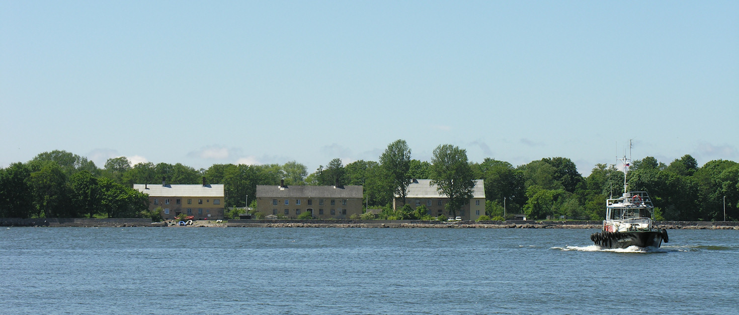 View to the Vistula Spit from Baltiysk